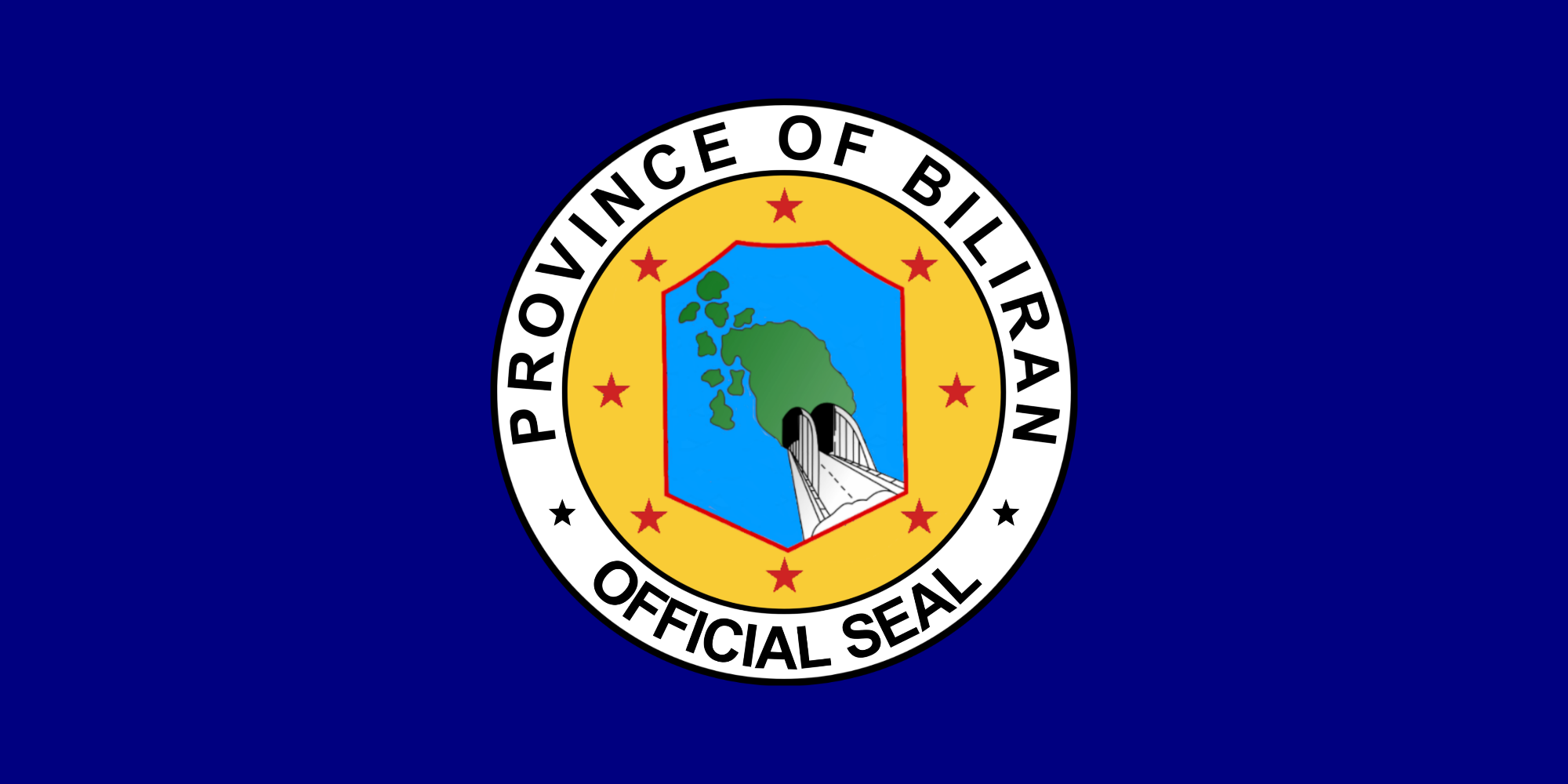 Flag of the Province of Biliran